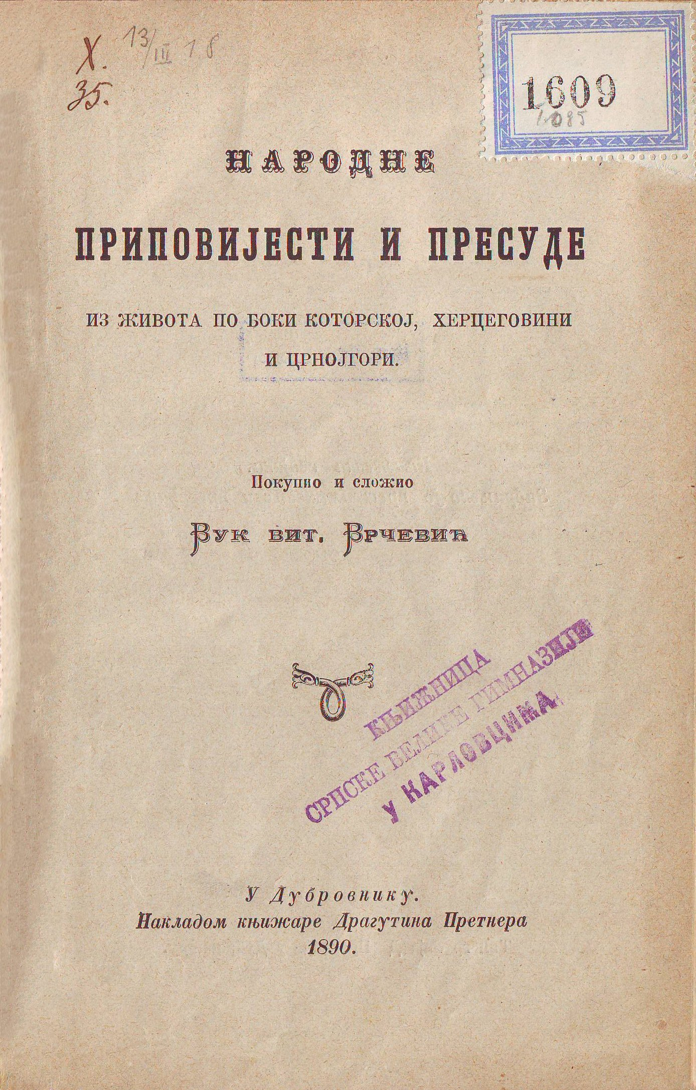 Cover of Narodne pripovijesti i presude (1890) by Vuk Vrčević. Srpski (latinica): Naslovna strana Narodnih pripovijesti i presuda (1890) Vuka Vrčevića.